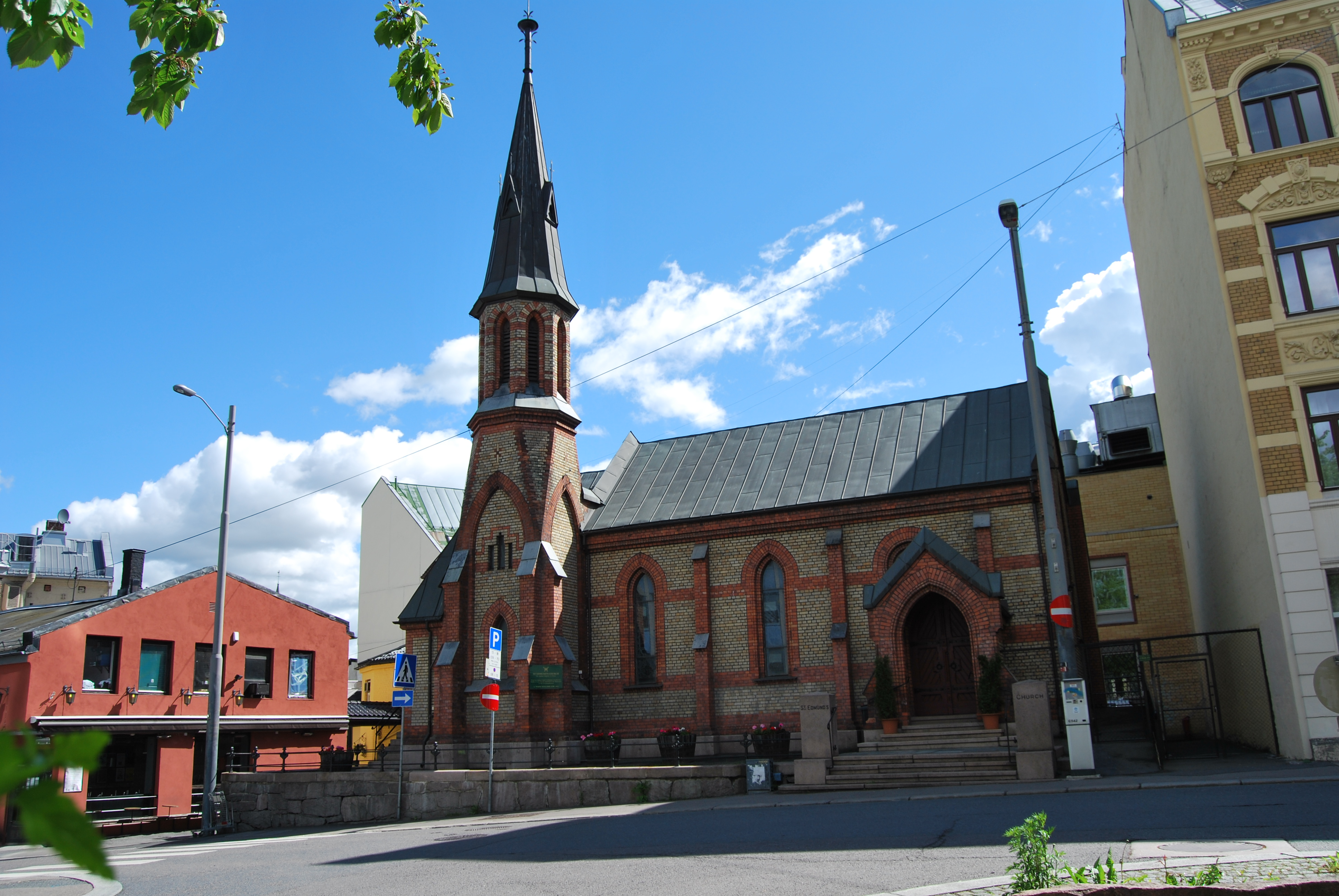 St. Edmund's anglican church, Møllergata, Oslo, Norway